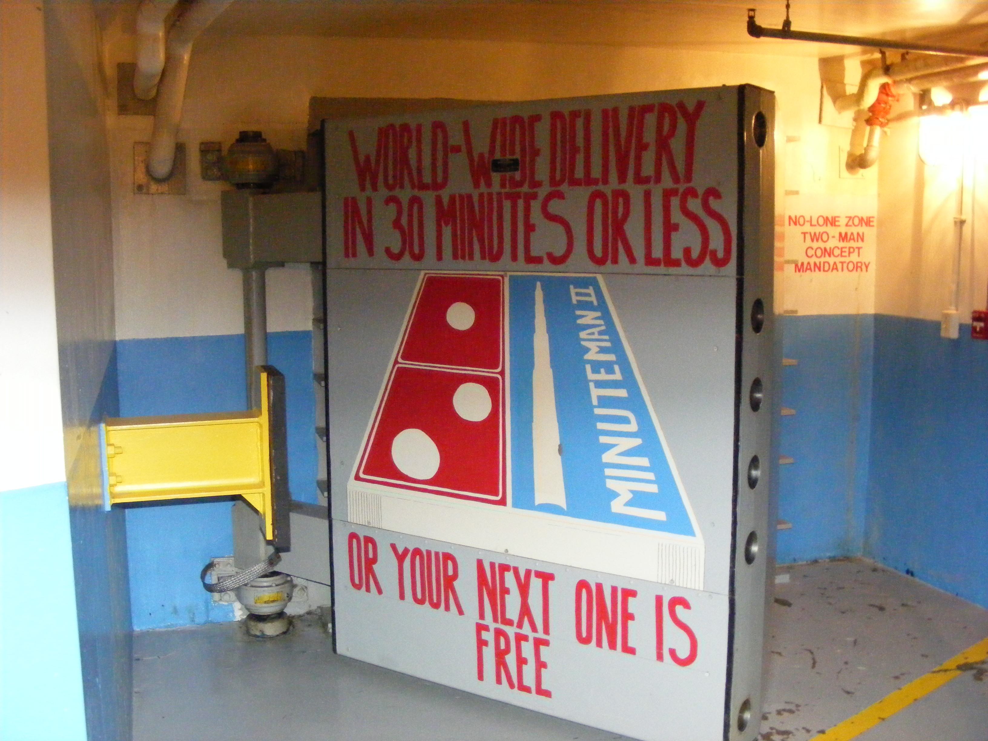 Blast door leading to underground launching facility at Minuteman Missile NHS